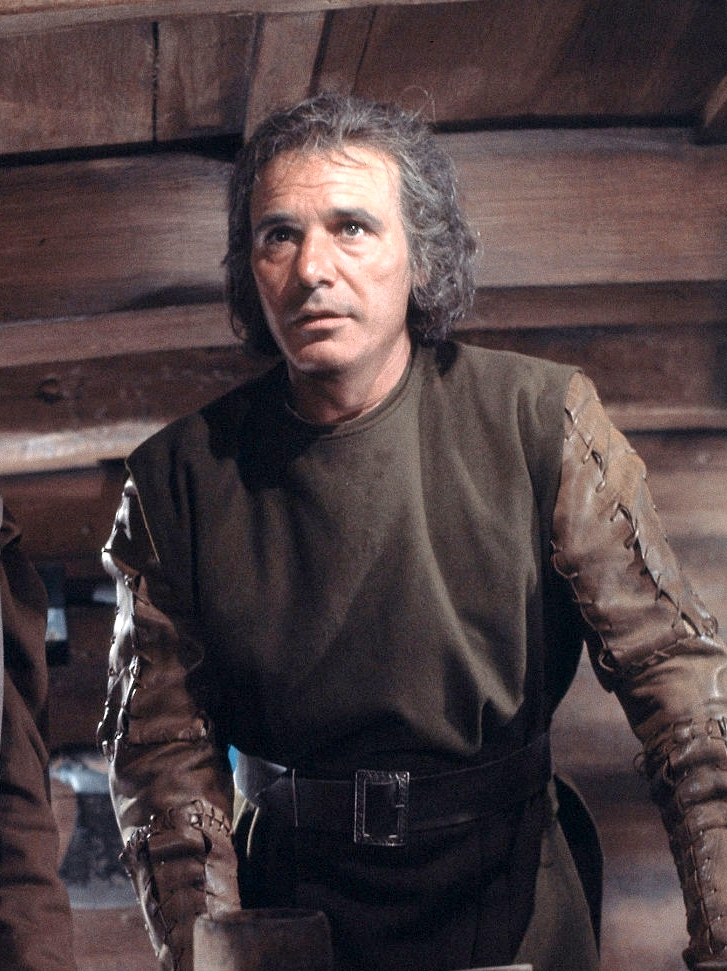 Spanish actor Francisco Rabal and Italian actor Andrea Checchi talking around a table in the TV series Cristoforo Colombo. 1968 (Photo by Mondadori via Getty Images)